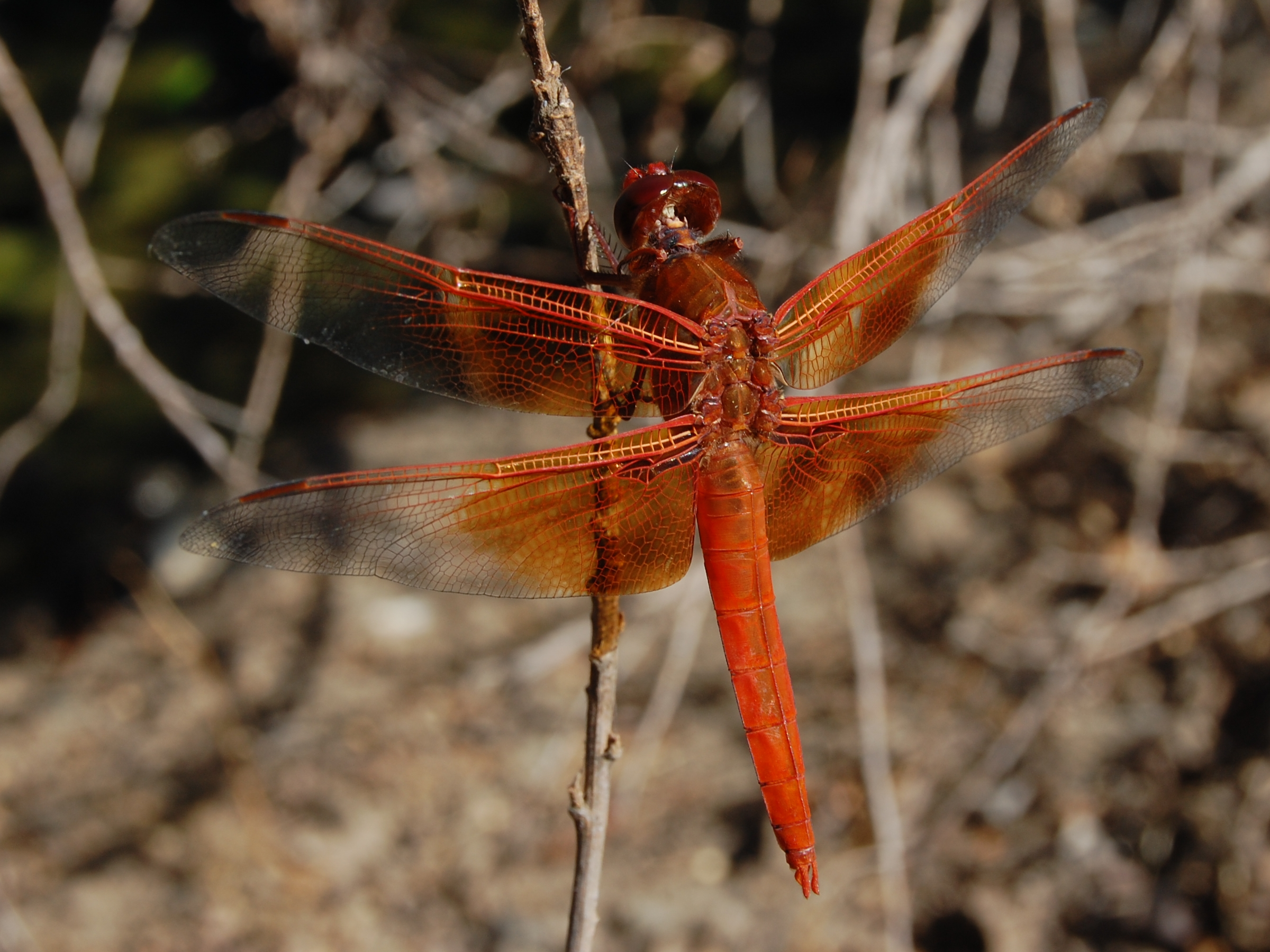 Flame Skimmer. Male